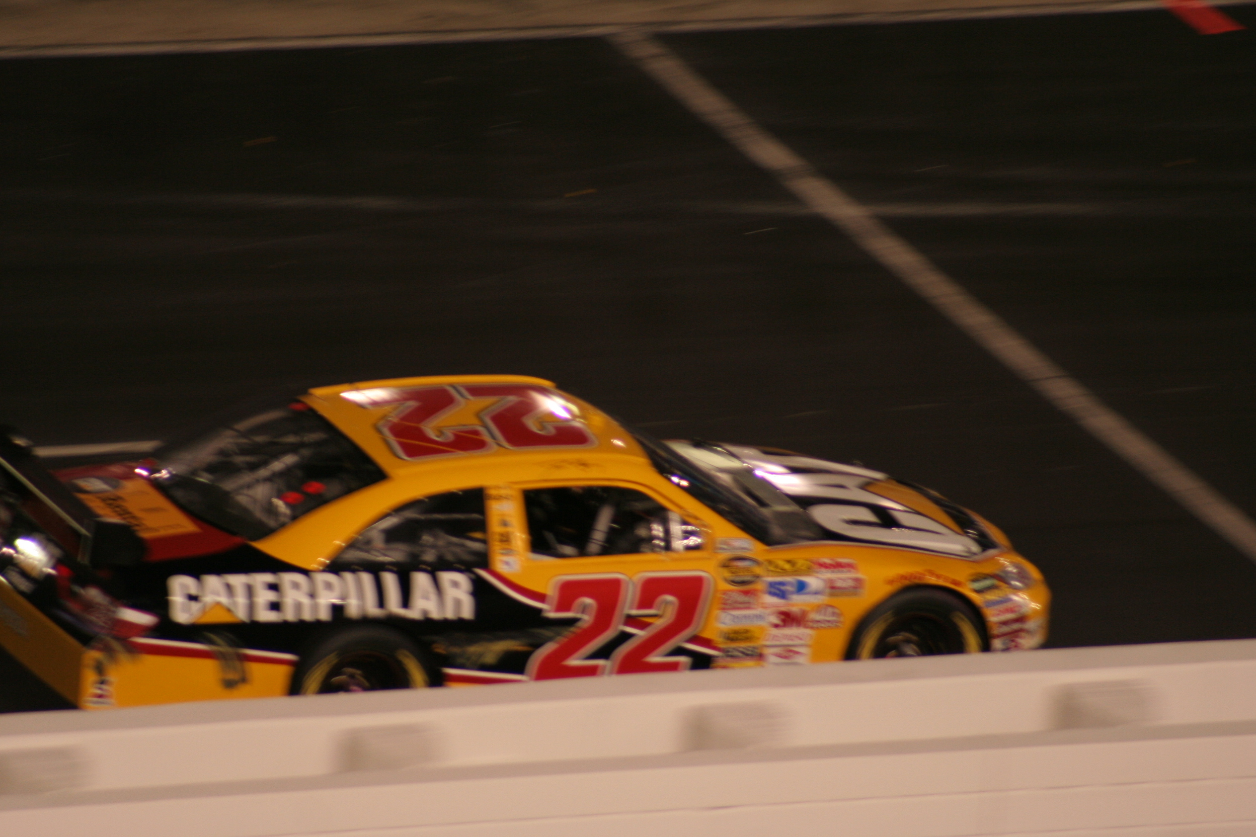 Dave Blaney in the Bill Davis Racing No. 22 at Bristol Motor Speedway.